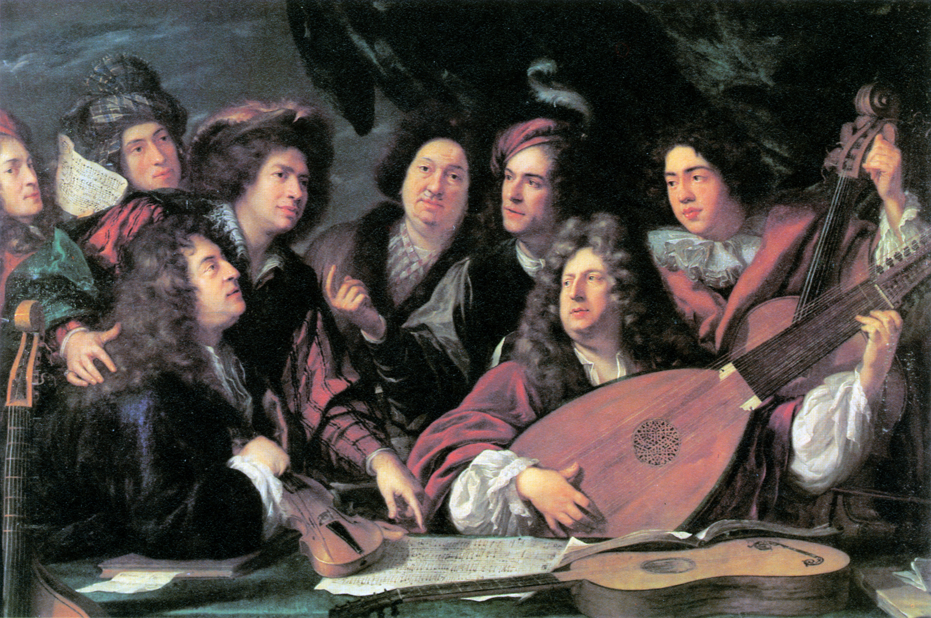 Traditionally the two main figures have been identified as the composer Jean-Baptiste Lully and the librettist Philippe Quinault